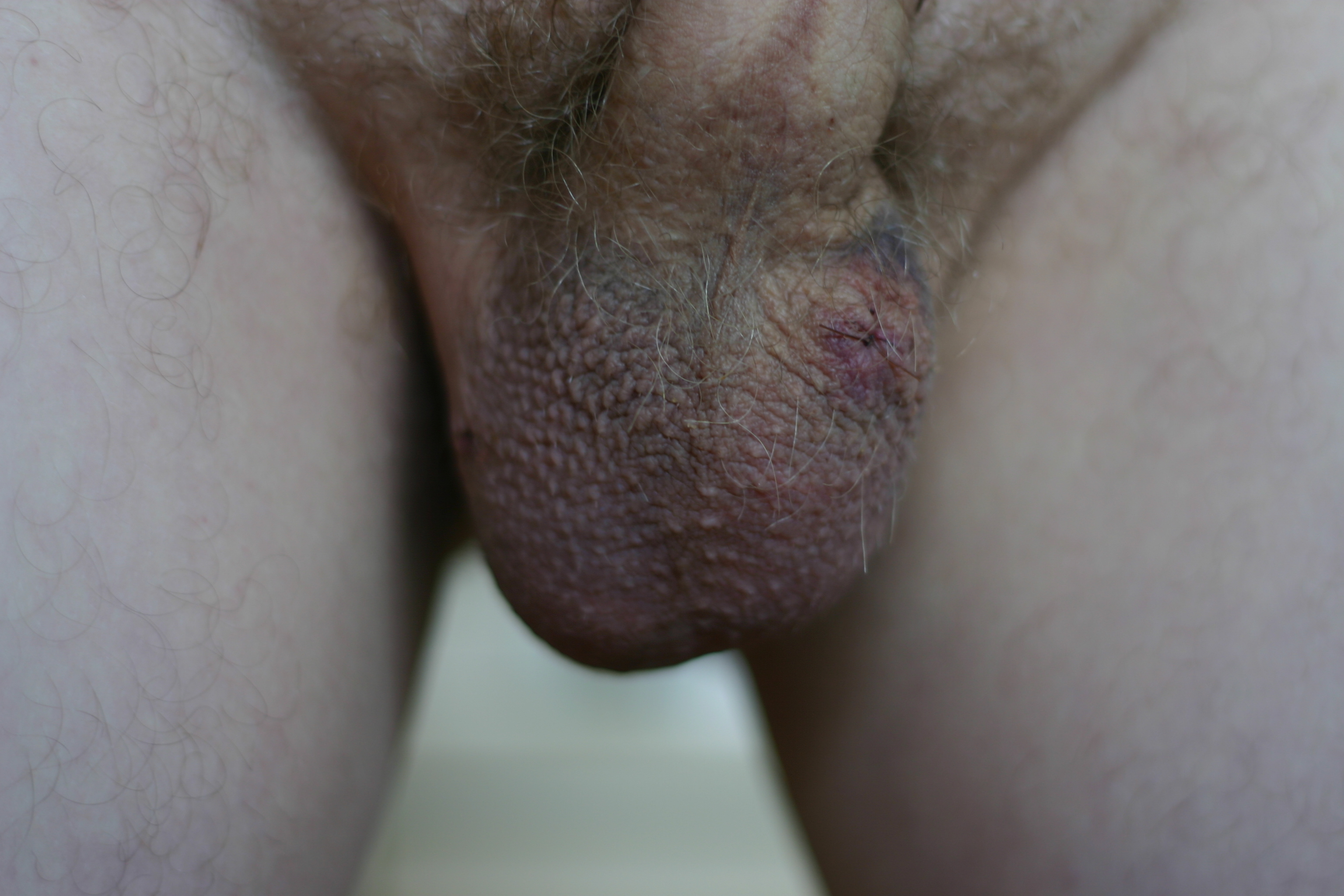 Post vasectomy photograph of scrotum, showing typical post-operative bruising, incision marks and a shaved scrotum.